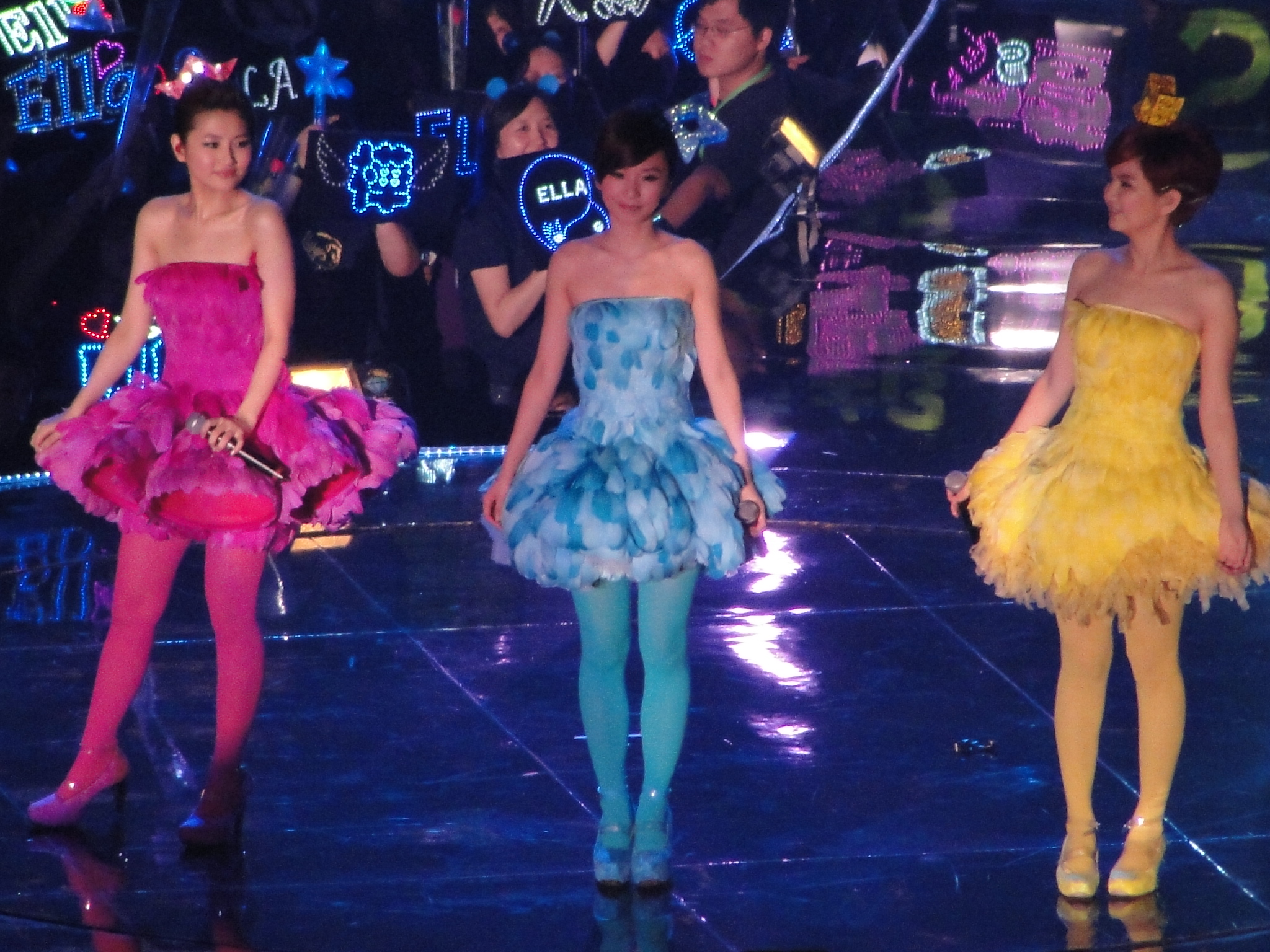 "S.H.E is the One" tour concert in Taipei. Bân-lâm-gú: S.H.E佇臺北的演唱會。 S.H.E tī Tâi-pak ê ián-tshiùnn-huē.